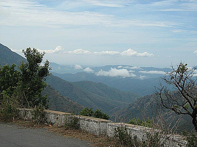 Attappadi Hills (View from Puthur-Manjur Road)